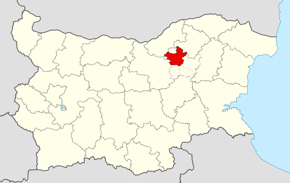 Location map of Popovo Municipality within Targovishte Province, Bulgaria. Equirectangular projection, N/S stretching 130 %. Geographic limits of the map: N: 44.4° N S: 41.1° N W: 22.1° E E: 28.9° E